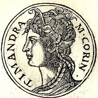 Timandra was Alcibiades' mistress at the time of his assassination.